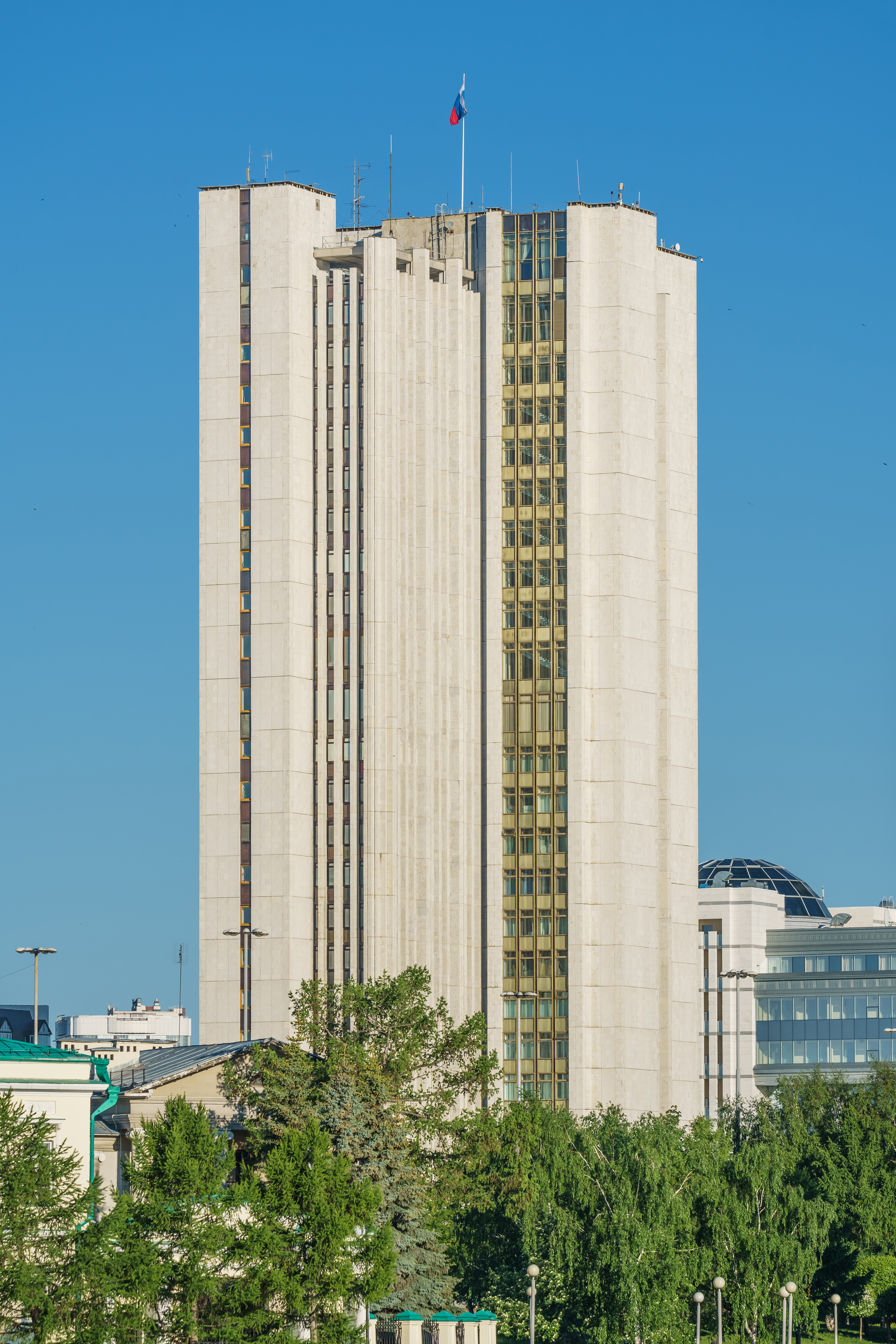 High-rise called White House in Ekaterinburg, Russia